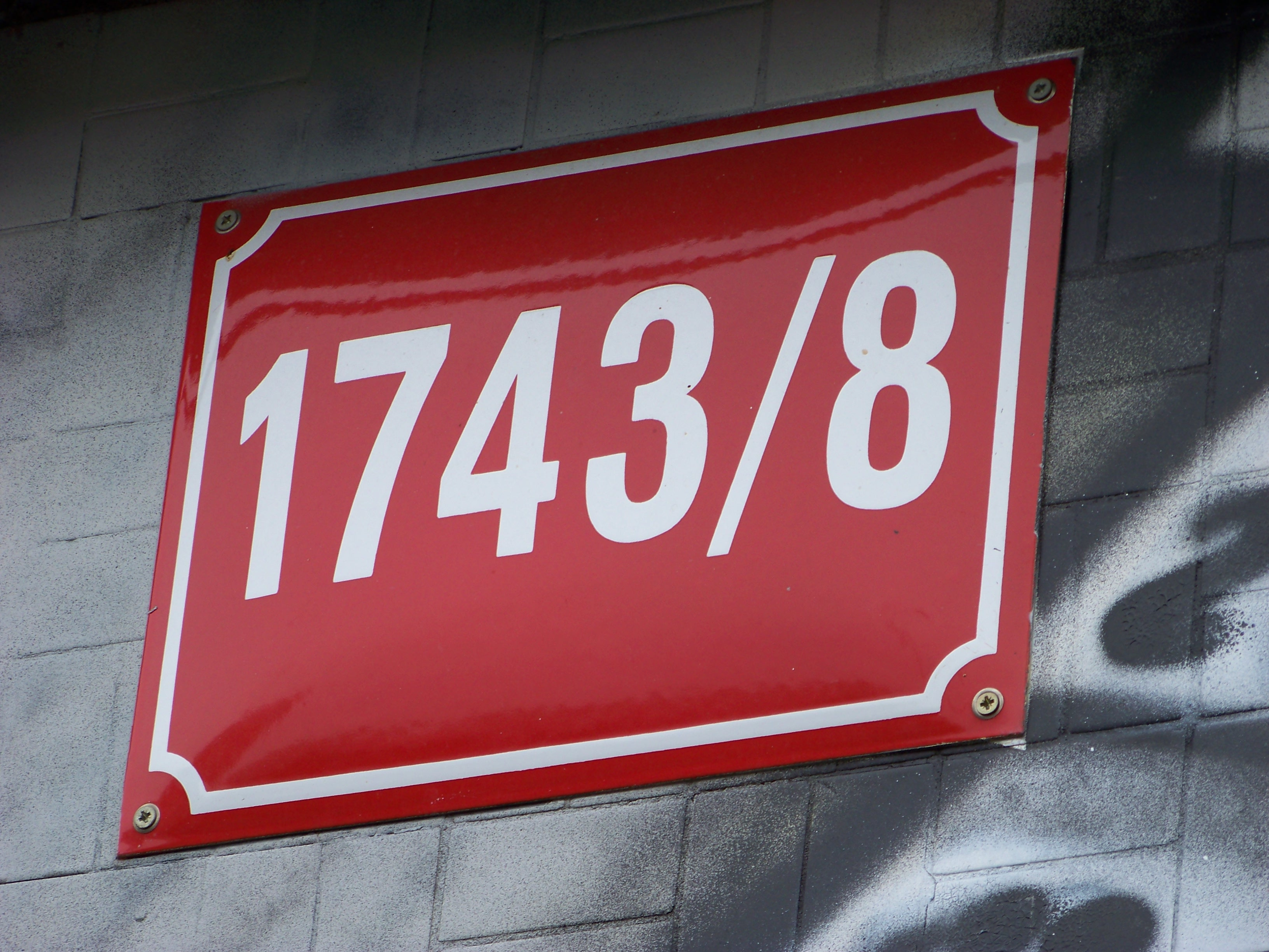 Prague-Chodov, the Czech Republic. A storage building of a book publisher and shop Knihy Dobrovský, a house number.